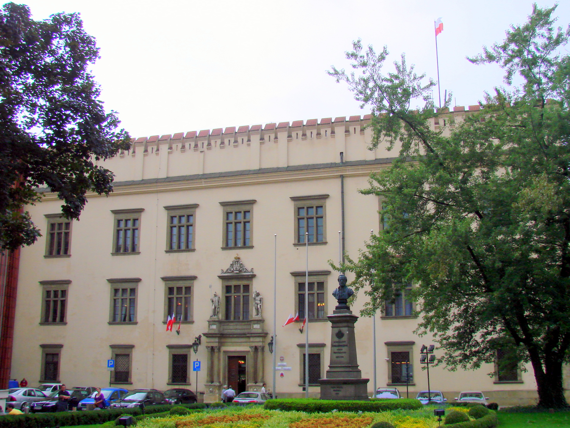 The Wielopolski Palace, seat of Kraków's mayor and city council.